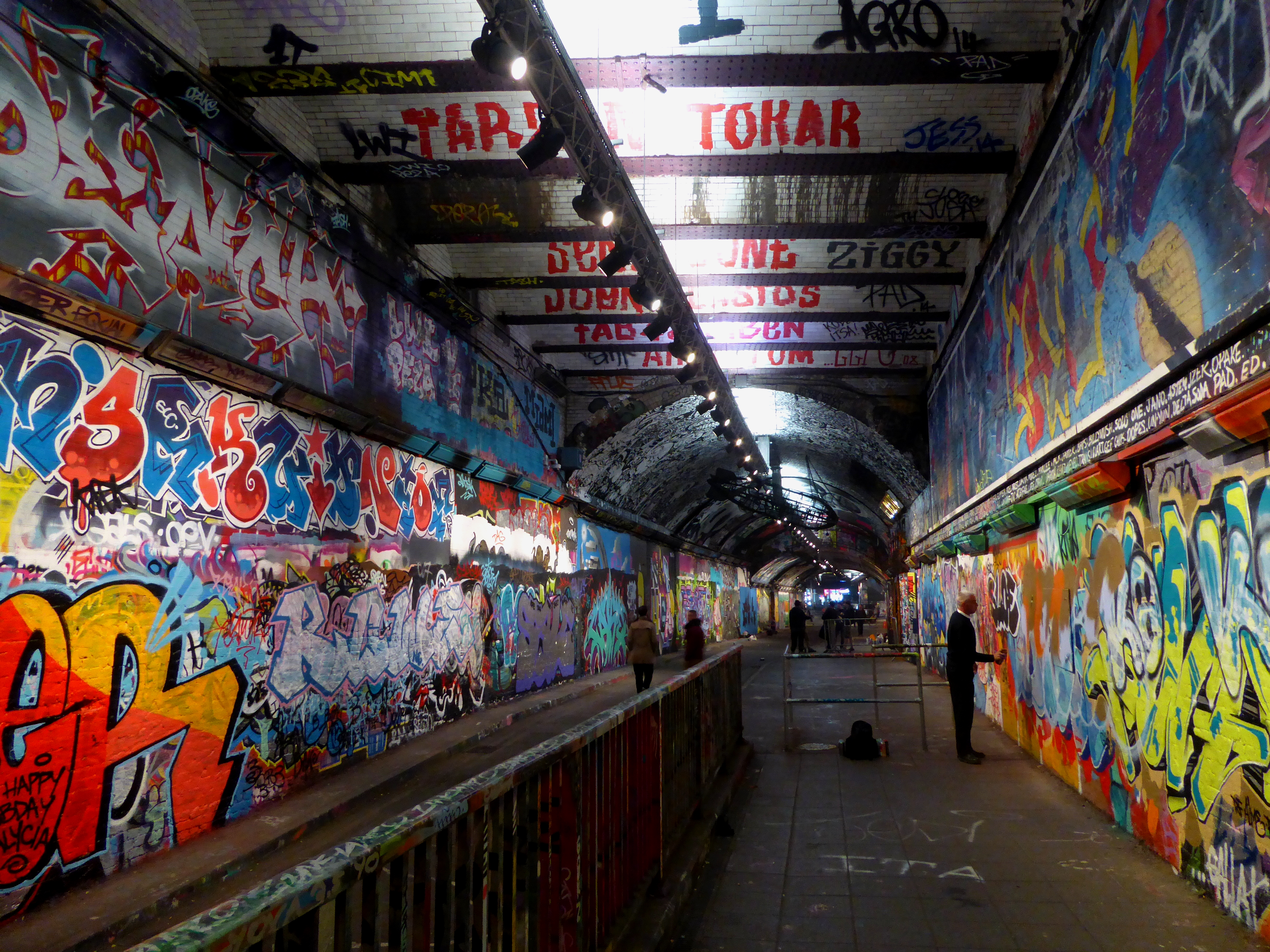 North-facing image from the southern end of the Leake Street Graffiti Tunnel in Lambeth.